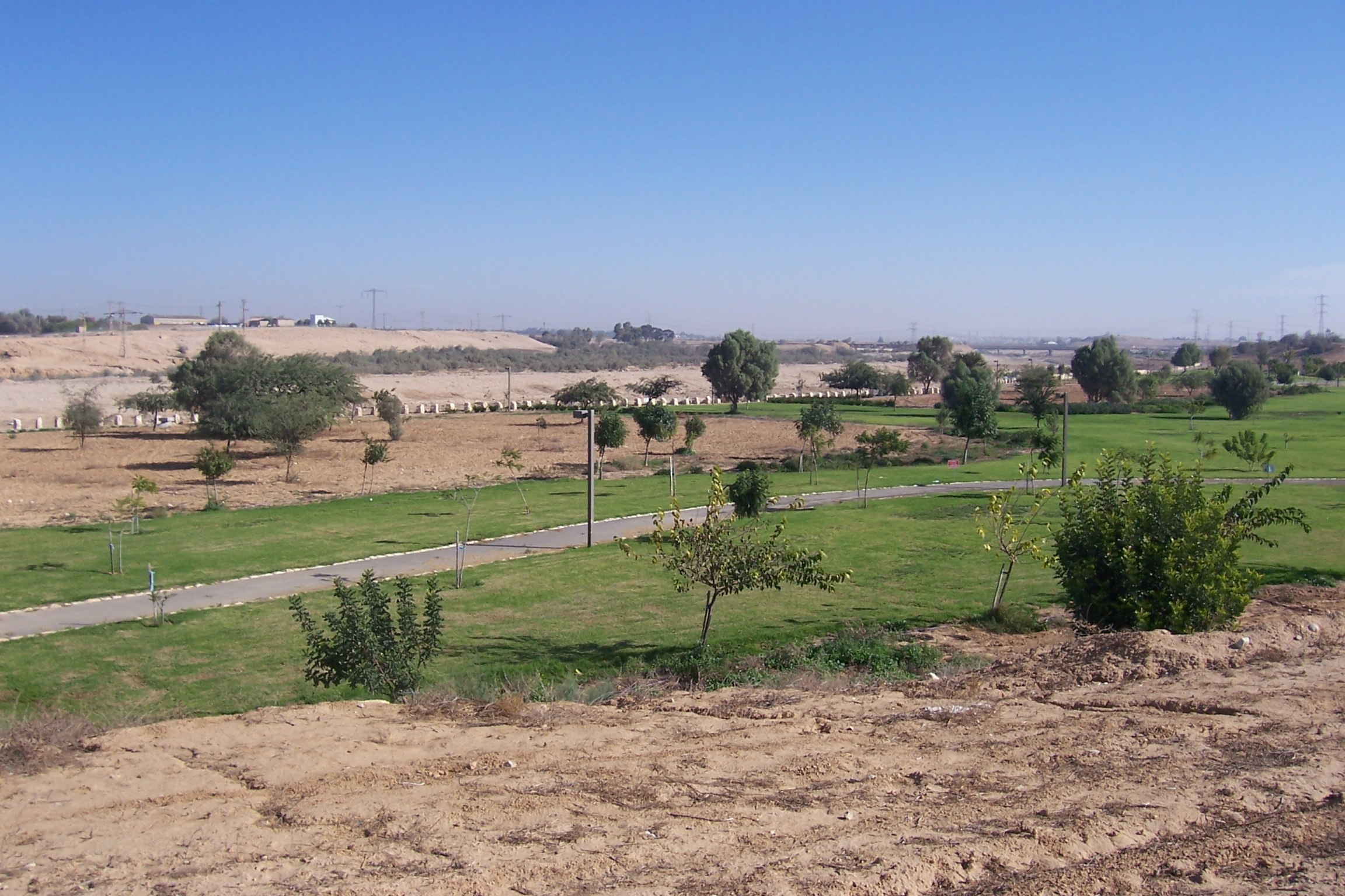 Geography of Israel